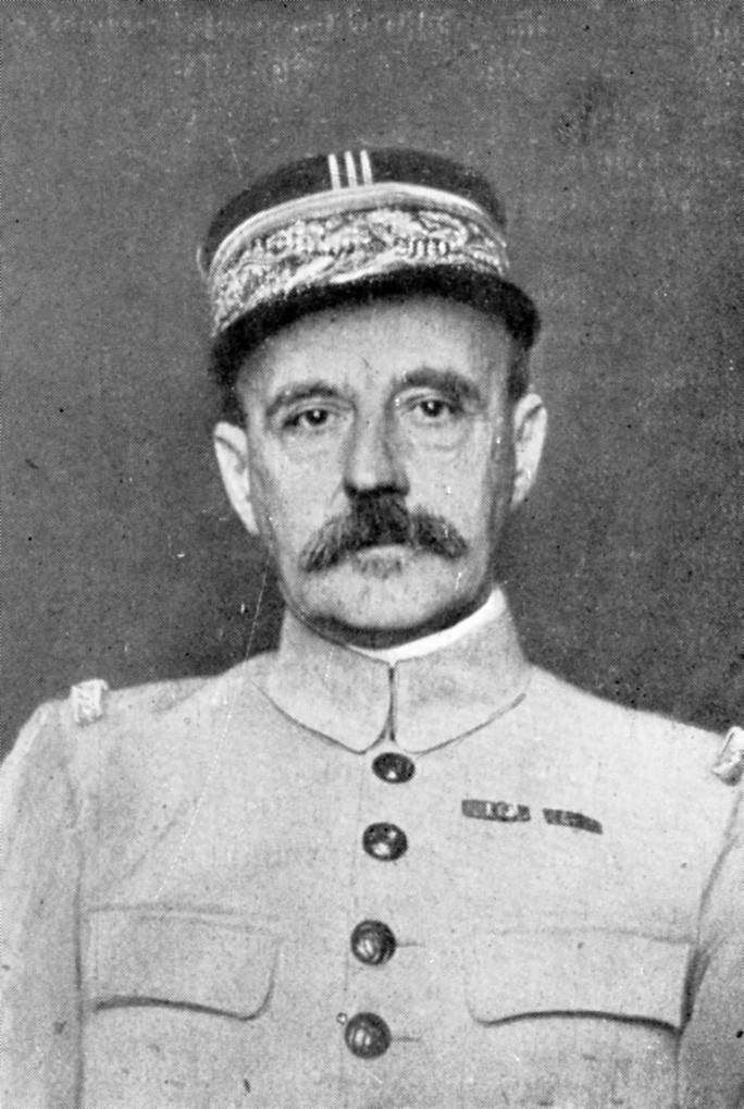 French general Marie-Eugène Debeney